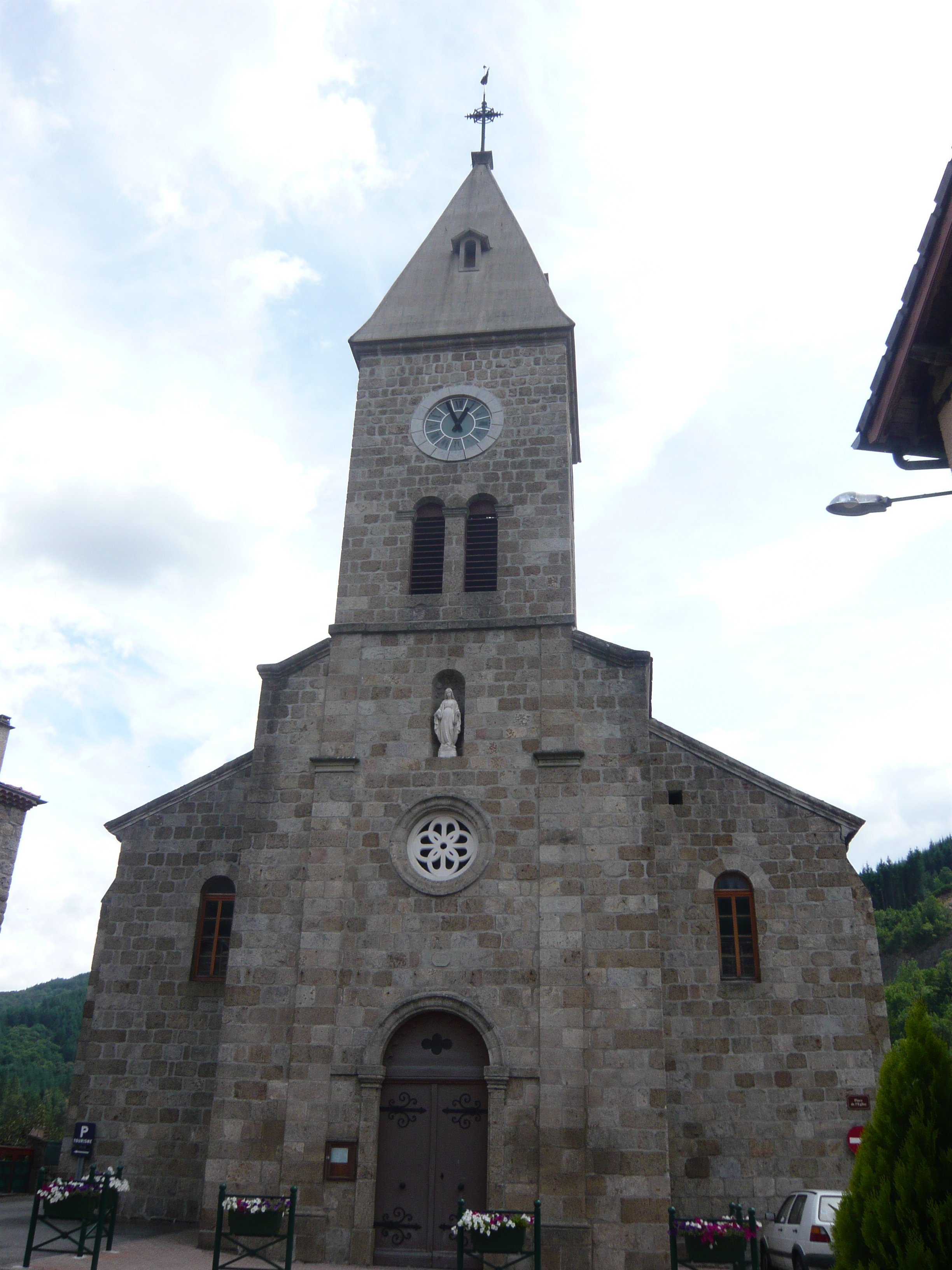 The Church of Saint-Julien-Boutières (Ardèche; France) - July 2010